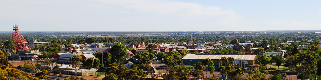 Panaroma of Kalgoorlie, Western Australia